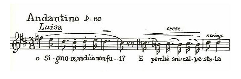 Score fragment from Luisa's aria "O Signore" of Giuseppe Verdi's 1849 opera Luisa Miller